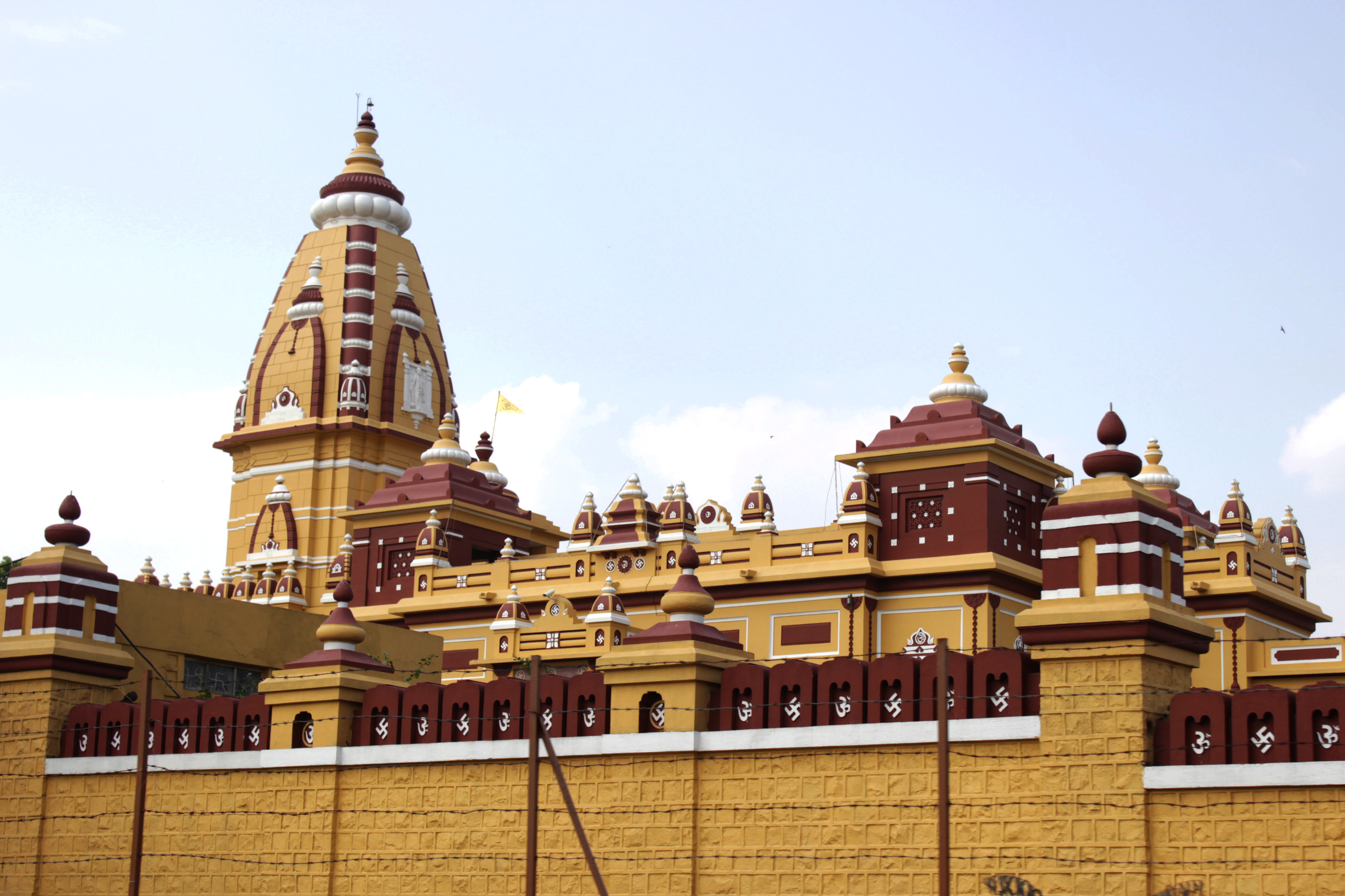 Birla Mandir Bhopal Side view